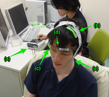 tDCS administration at National Center of Neurology and Psychiatry Hospital. A subject (front) sits on a sofa relaxed, and a researcher (behind) controls the tDCS device (a). In this picture, anodal (b) and cathodal (c) electrodes with 35-cm2 size are put on F3 and right supraorbital region, respectively. We use a head strap (d) for convenience and reproducibility, and also use a rubber band (e) for reducing resistance